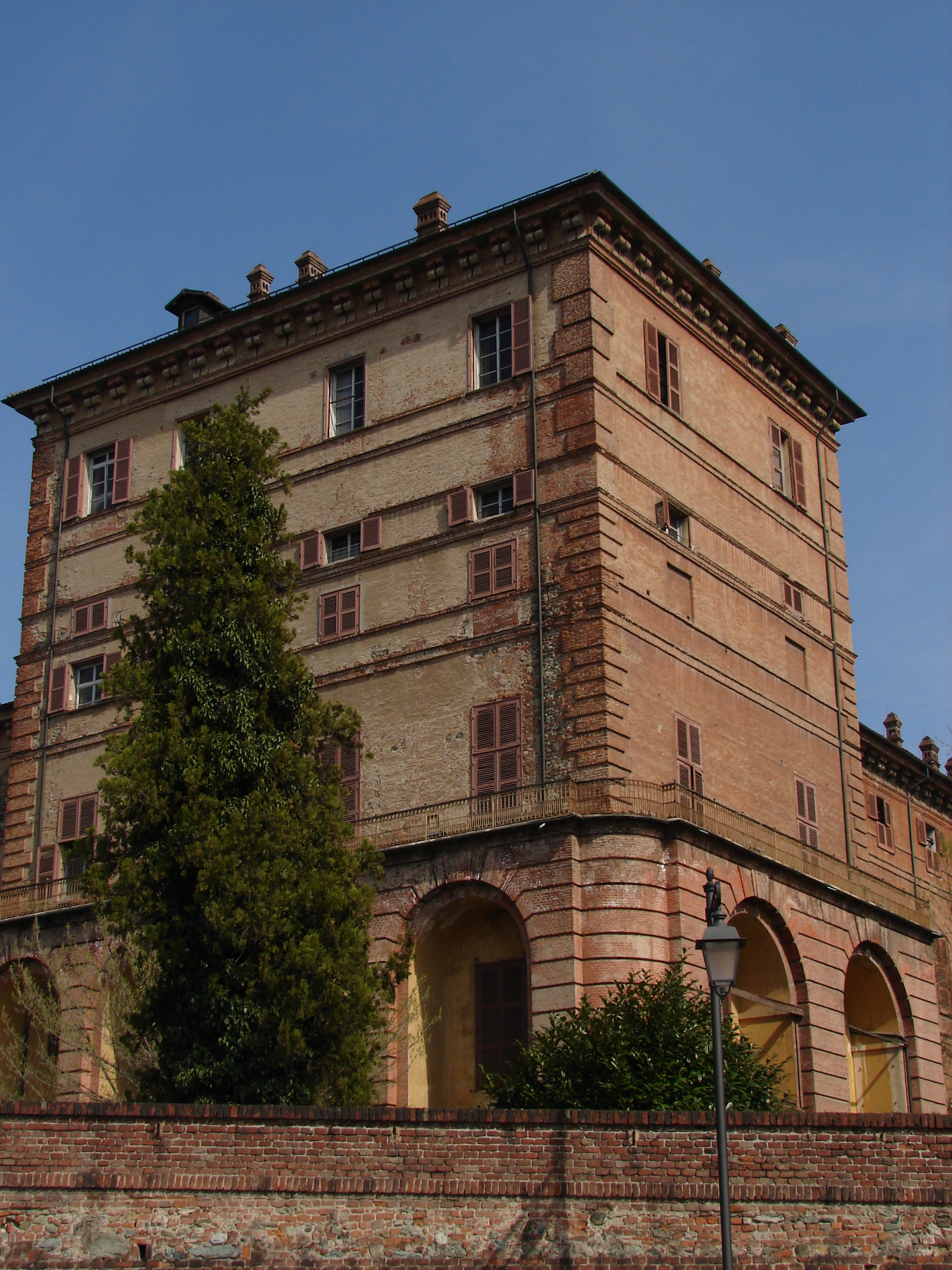 Author: Miguel Tremblay Date: March 31 2006 Source: Photo taken by me on a visit at Moncalieri Place: Castle of Moncalieri. See Moncalieri for more informations.